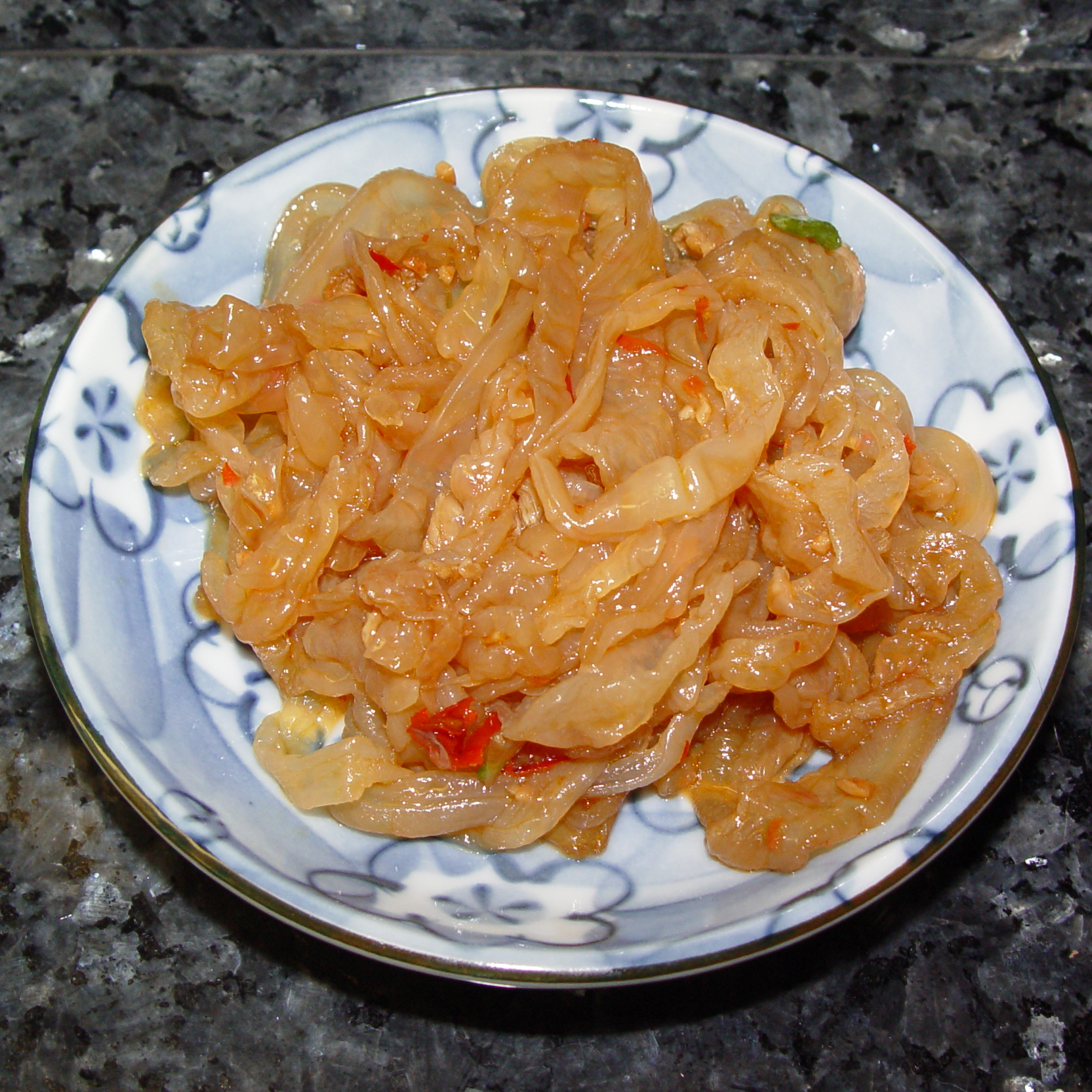 Jellyfish strips with soy sauce, sesame oil, and chili sauce. for recipe.